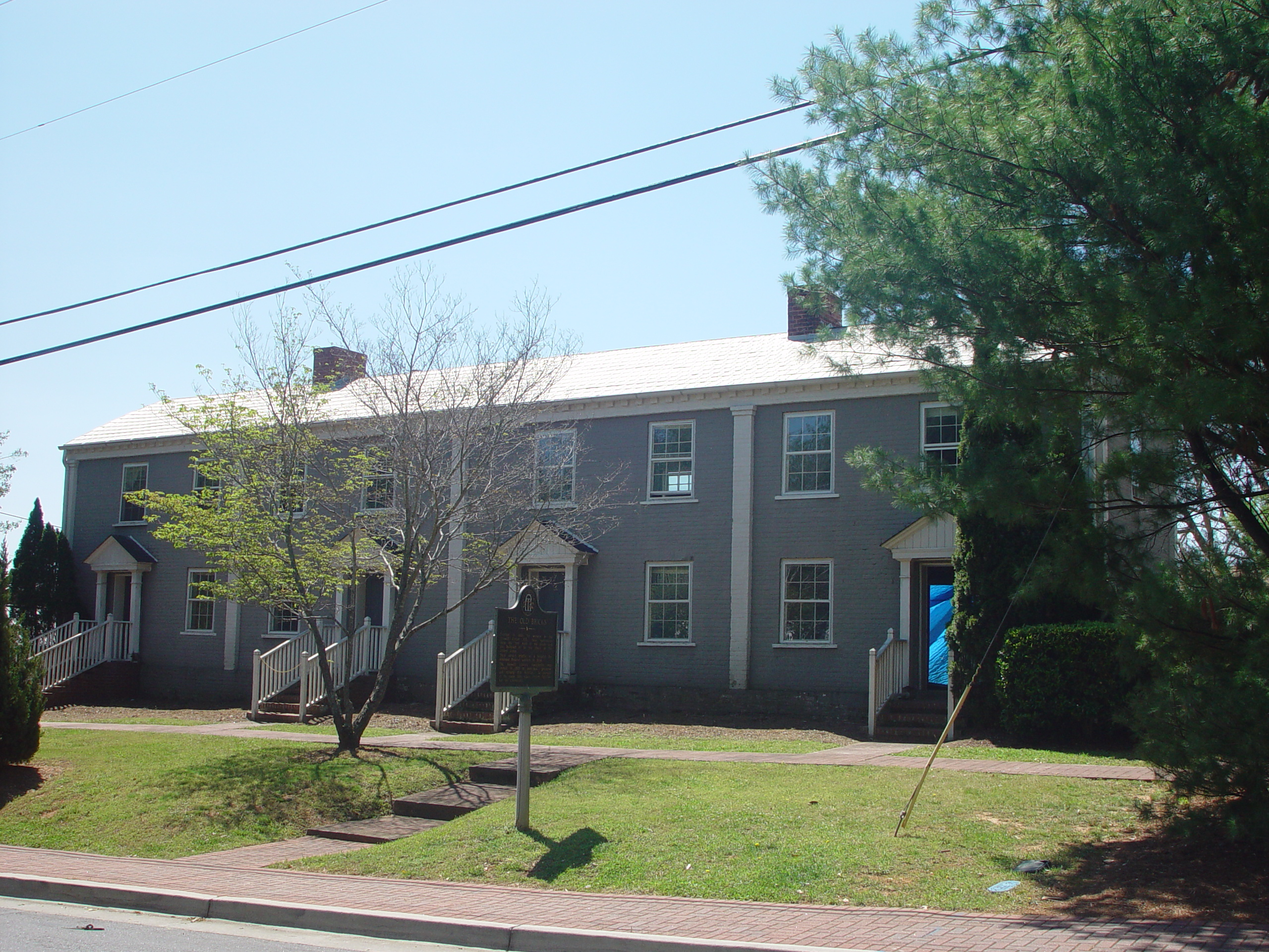 The Bricks, Sloan Street, Roswell, Georgia, USA